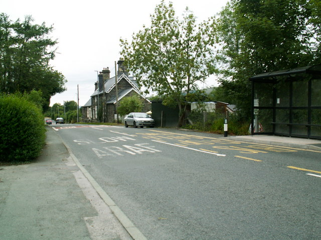 Cemmaes Road. Disused station on the Cambrian railway.